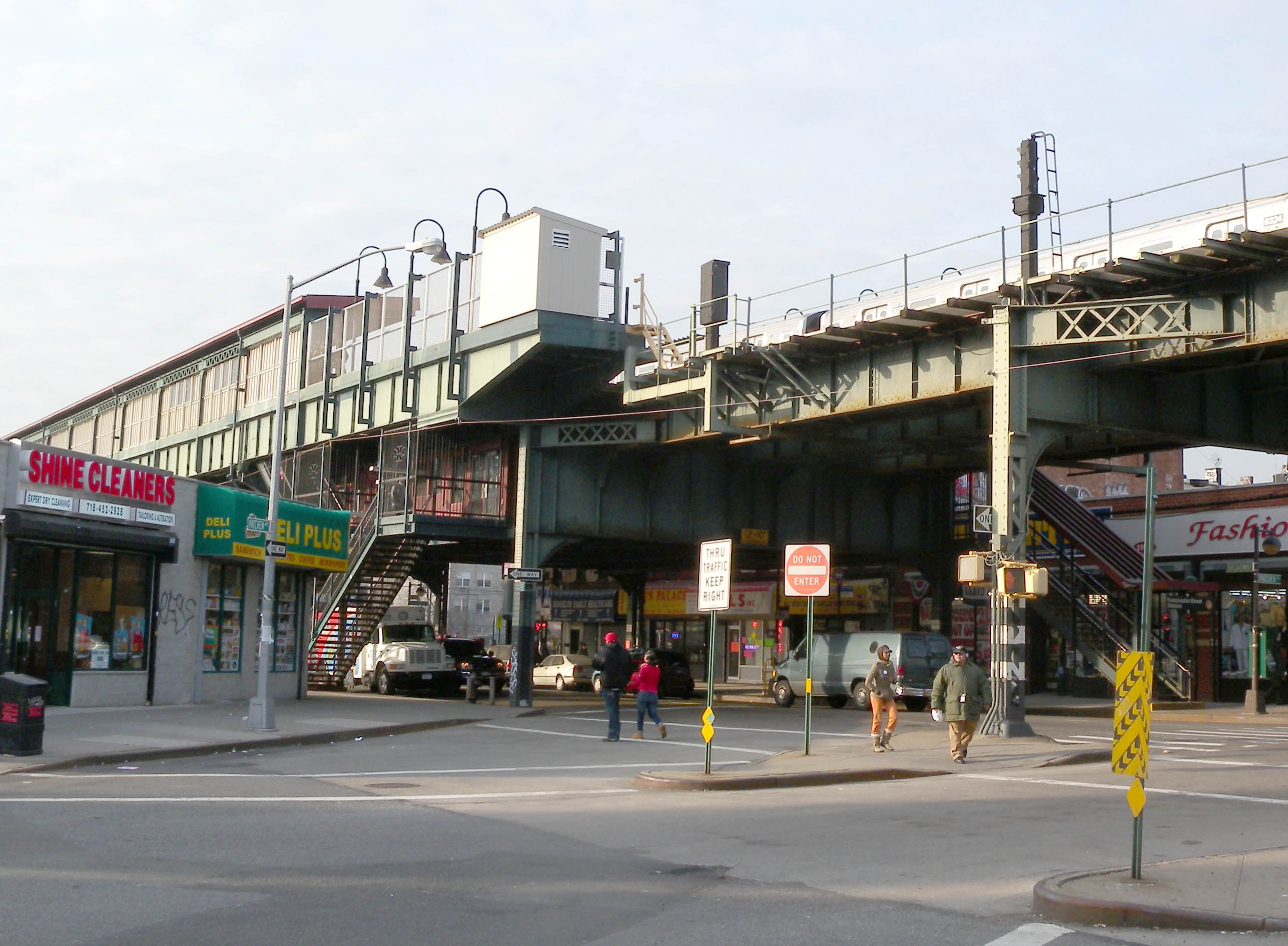 Looking northwest across Lafayette Avenue at Kosciuszko Street station of J train on a sunny afternoon. See also File:Kosciuszko J BMT platform jeh.JPG.